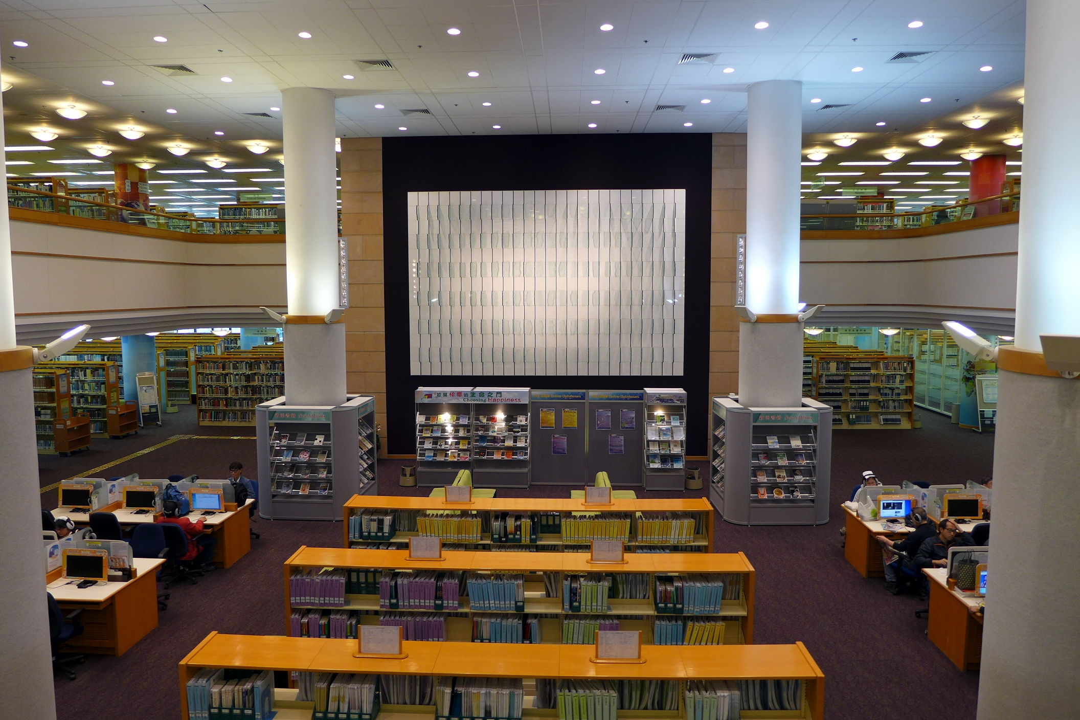 Hong Kong Central Library Level 8-9 Atrium